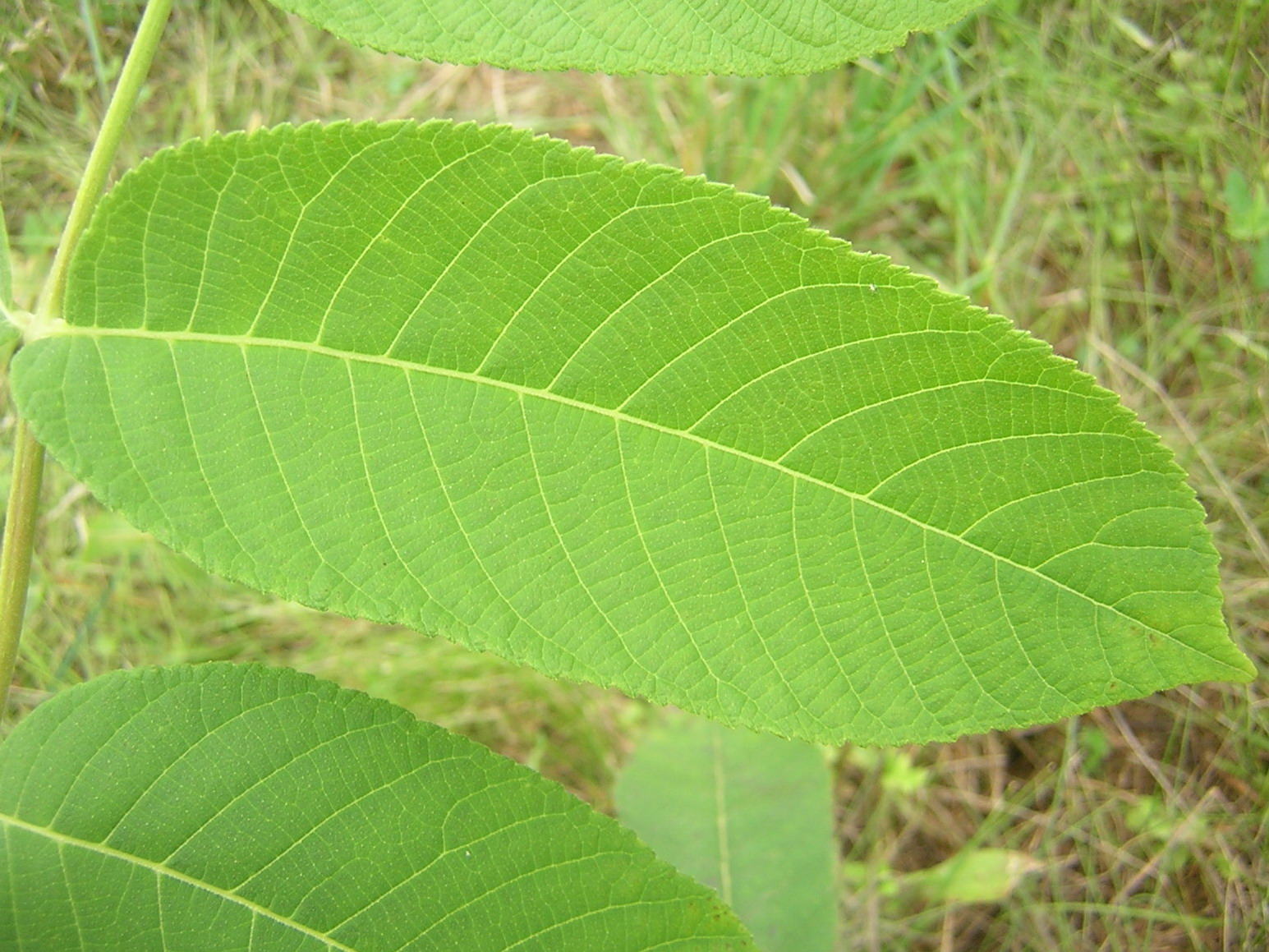 Juglans mandshurica, leaflet